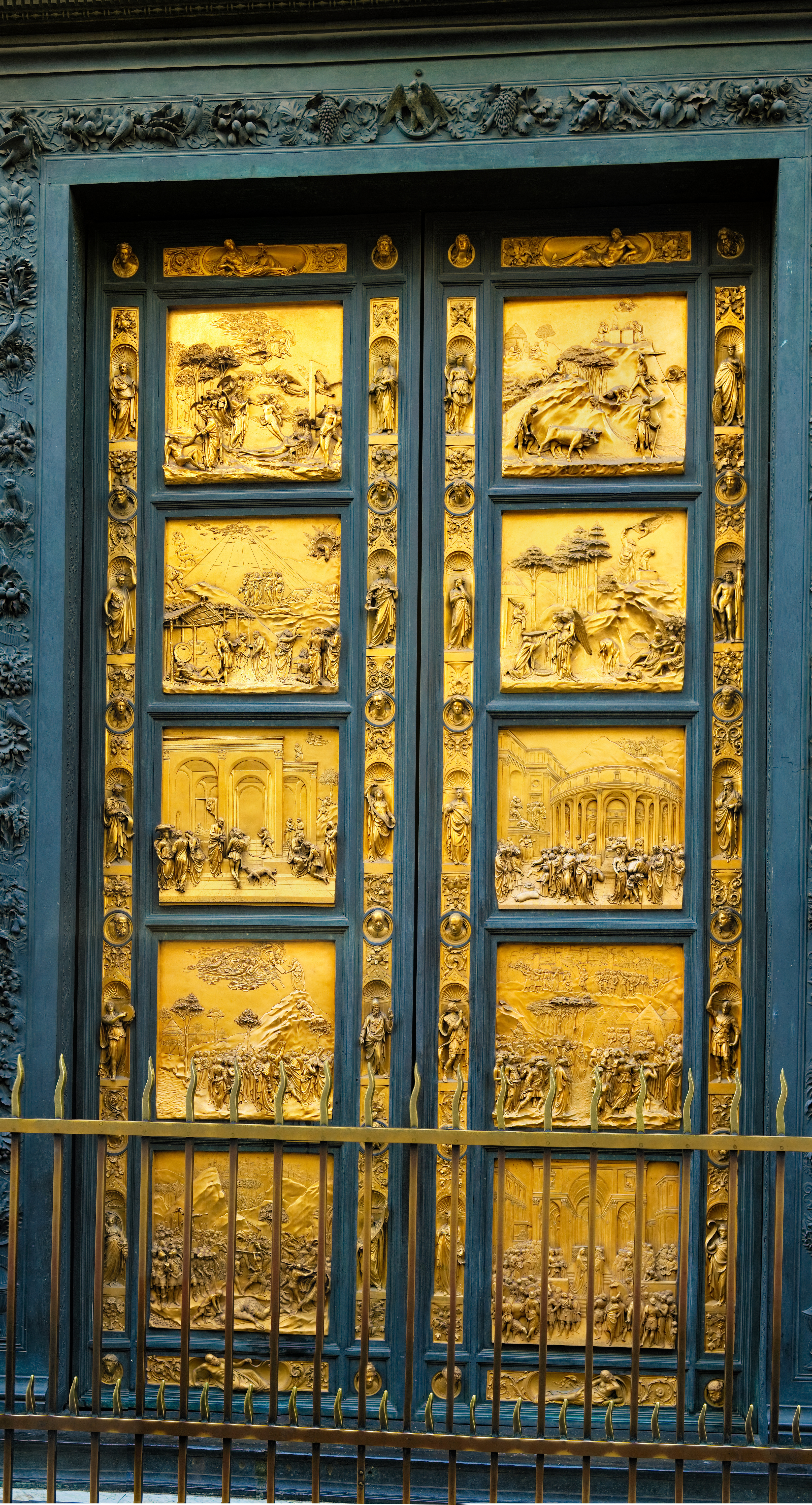 Gates of paradise